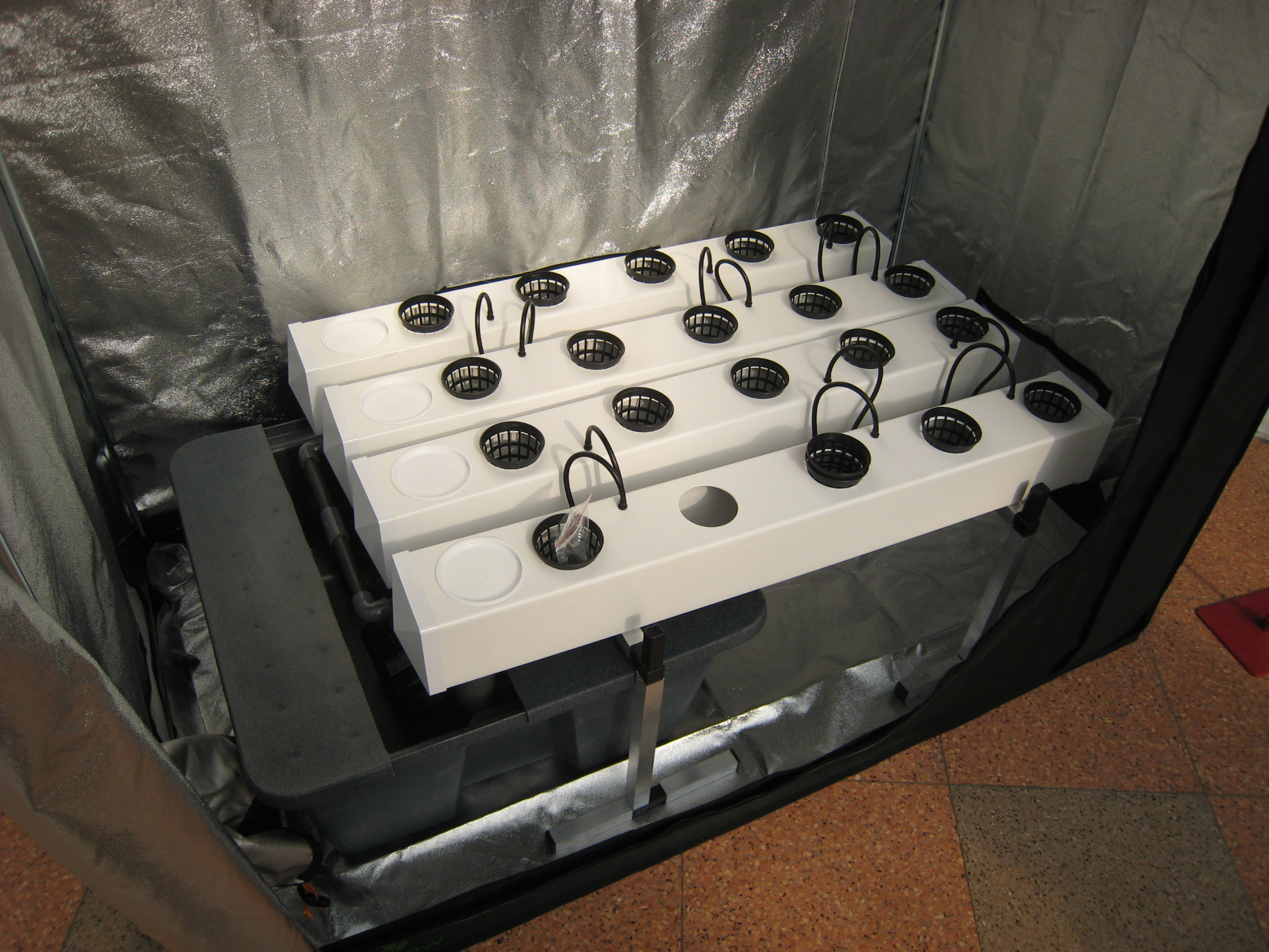 A hydroponic system in a grow box